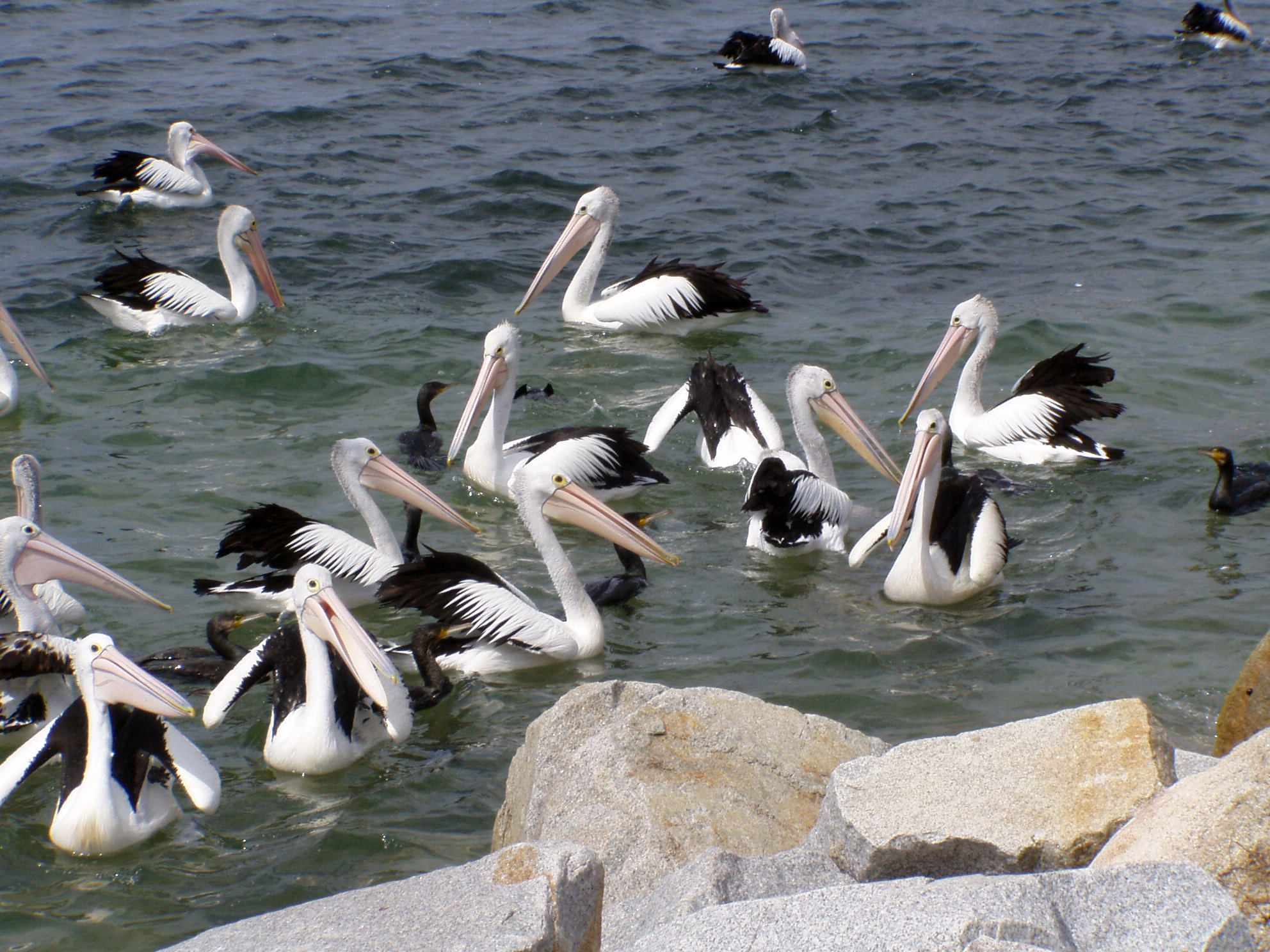 Description: Group of Australian Pelicans (Pelecanus conspicillatus) Location: Batemans Bay wharf, New South Wales, Australia Date: 2005-09-24 Source: picture taken by Danielle Langlois Licence: Released under GFDL and Creative Commons licenses by the photographer